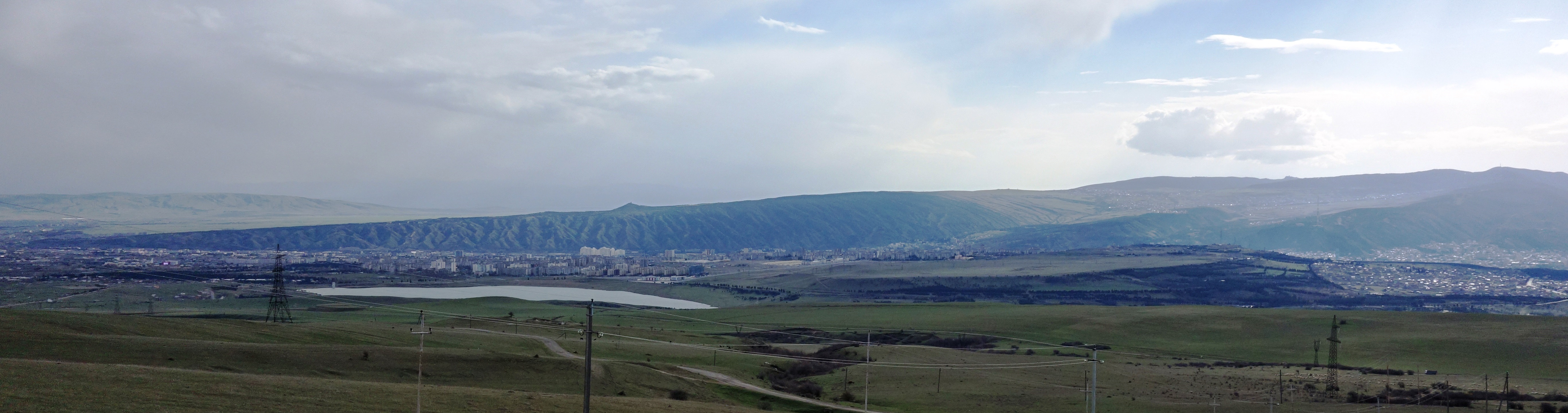 Teleti Range, Georgia